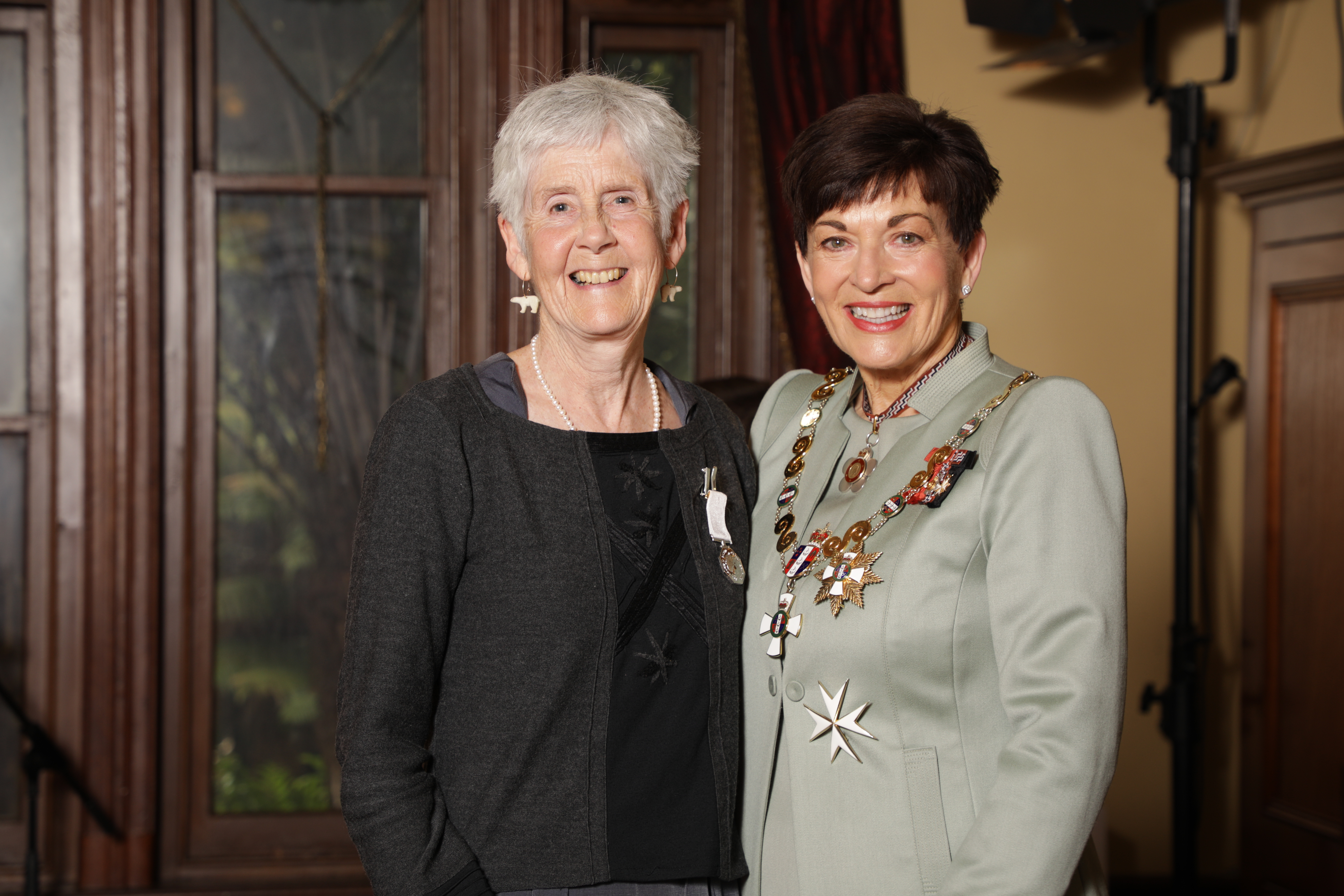 Pat Langhorne (left), after being presented with the New Zealand Antarctic Medal, for services to Antarctic science, by the governor-general, Dame Patsy Reddy, at Larnach Castle, Otago Peninsula, on 27 September 2019.